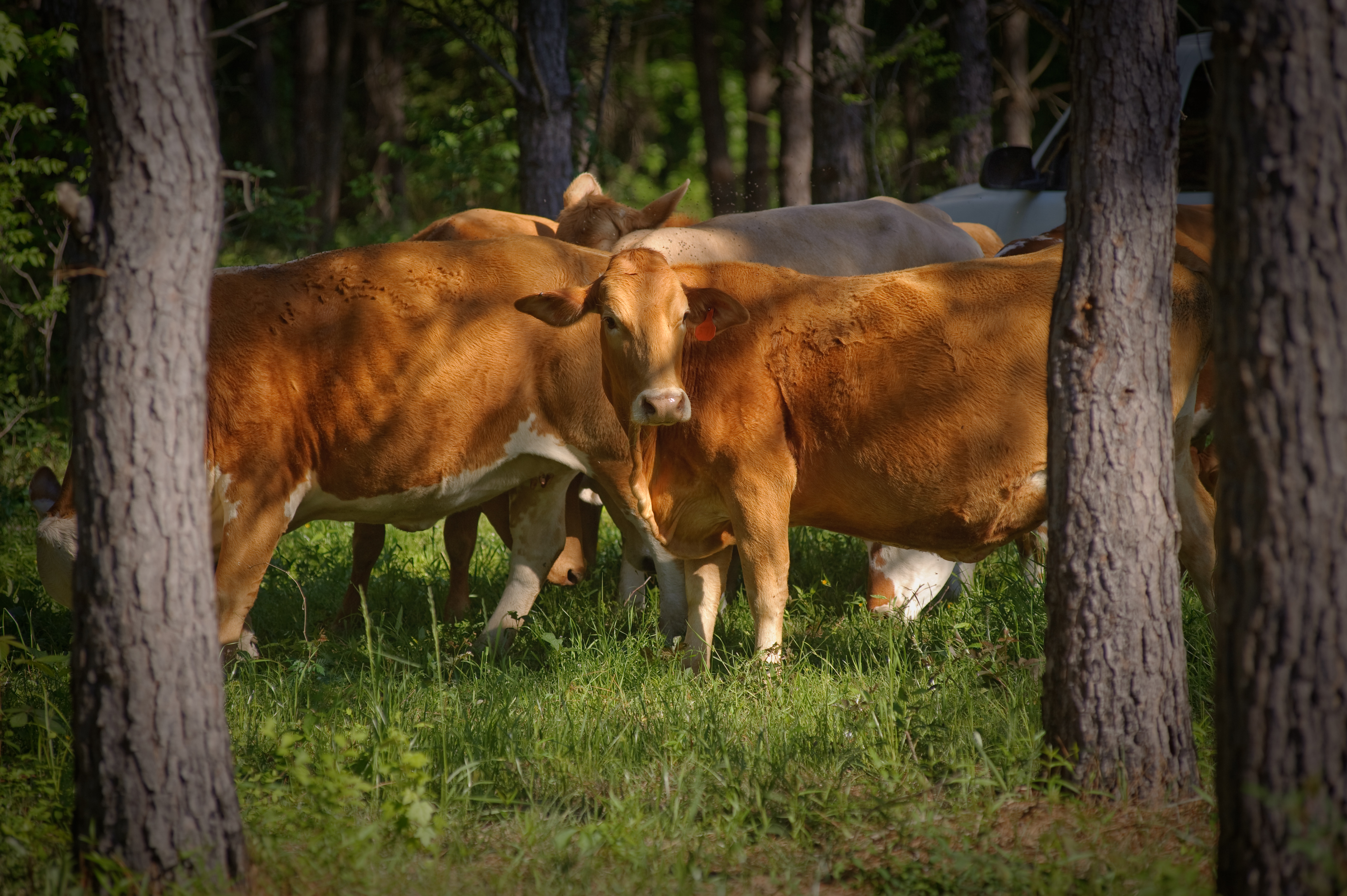 This image or file is a work of a United States Department of Agriculture employee, taken or made as part of that person's official duties. As a work of the U.S. federal government, the image is in the public domain.